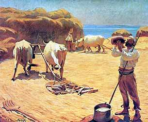 Threshing (harvesting)